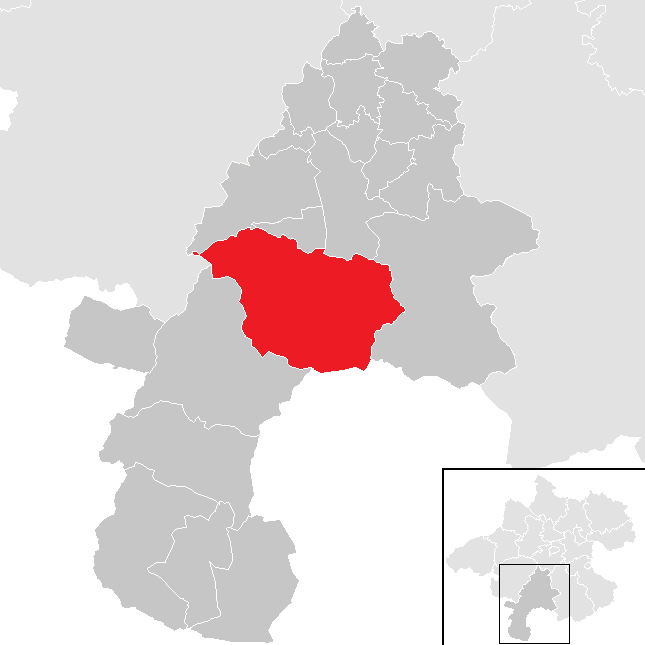 district Gmunden